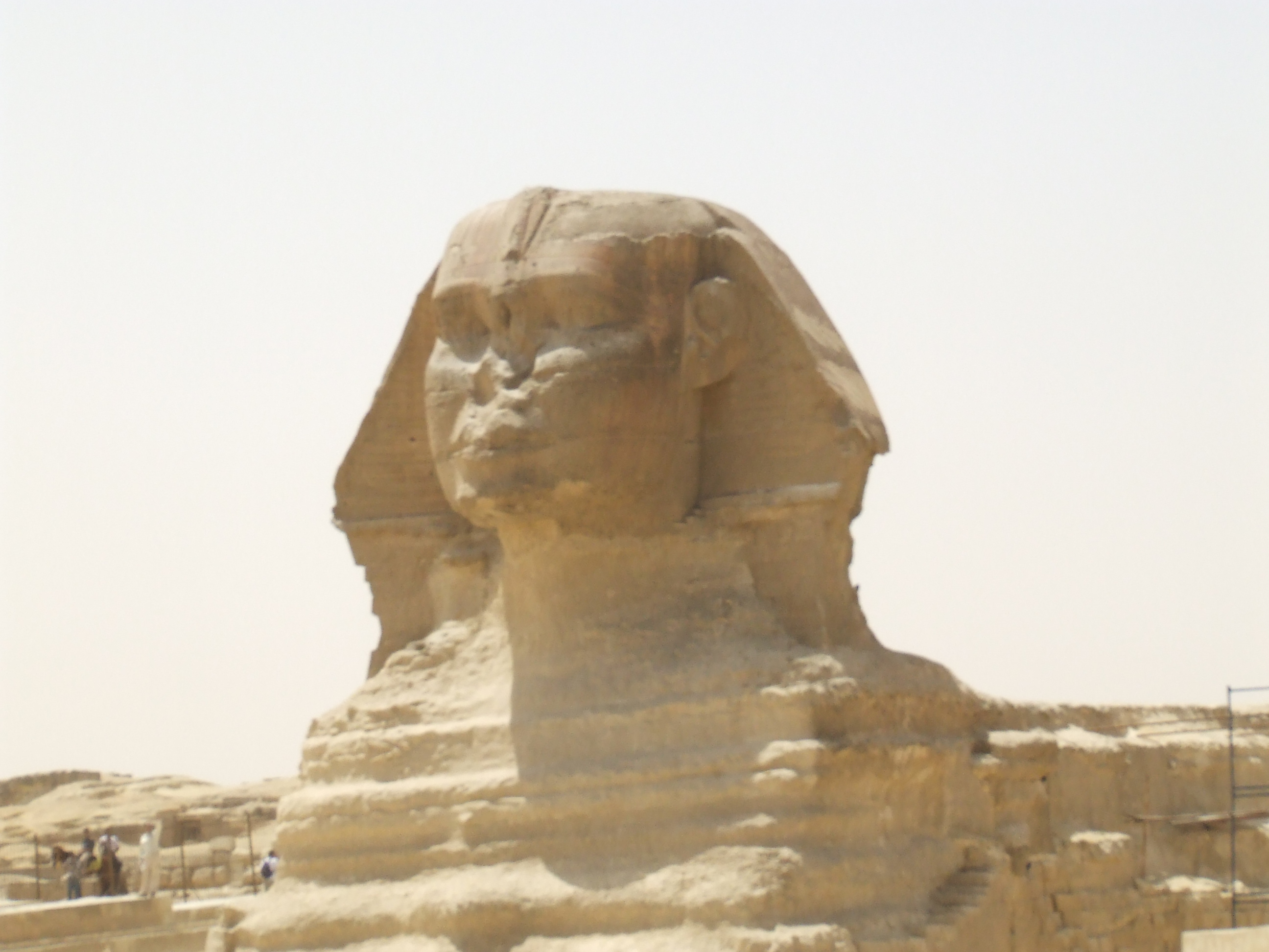 Great Sphinx of Giza